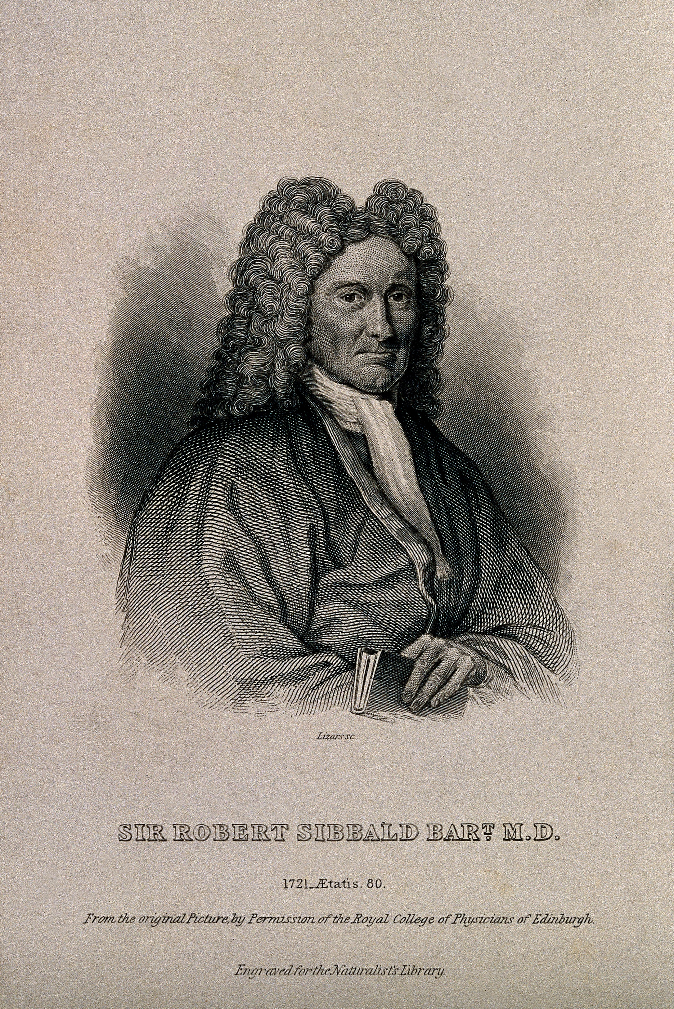 Sir Robert Sibbald. Line engraving by W. H. Lizars after J. Alexander. Iconographic Collections Keywords: portrait prints; engravings; William Home Lizars; Robert Sibbald